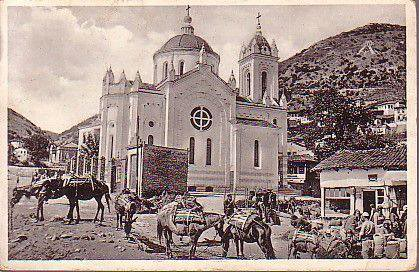 Sts. Cyril and Methodius Church in Strumica.